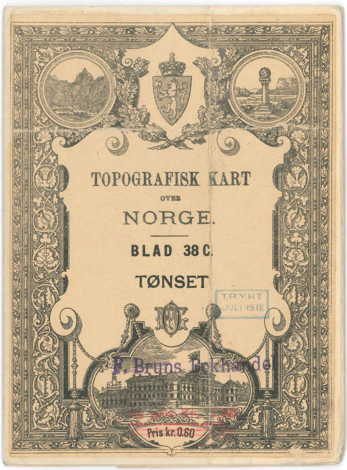 Map of Tynset, published 1912, printed 1918.